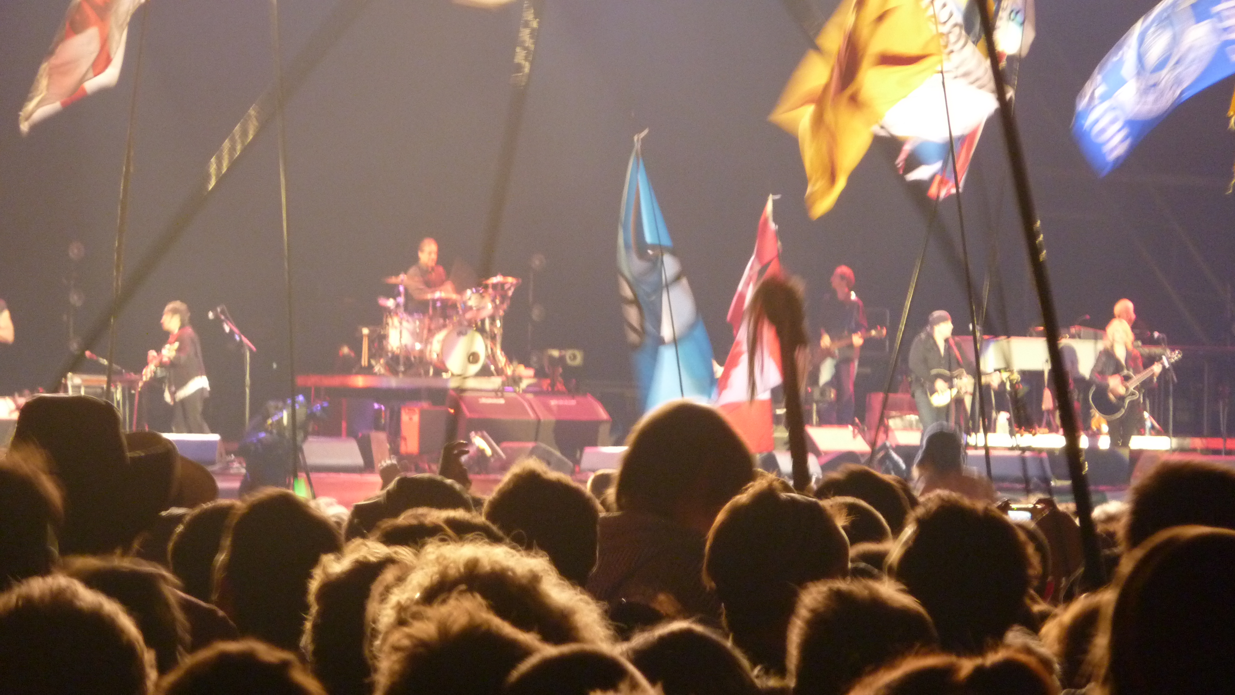 Bruce Springsteen and the E Street Band perform at the Glastonbury Festival